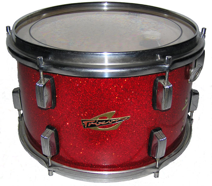 Trixon 13 inch Luxus 200/0 Tom